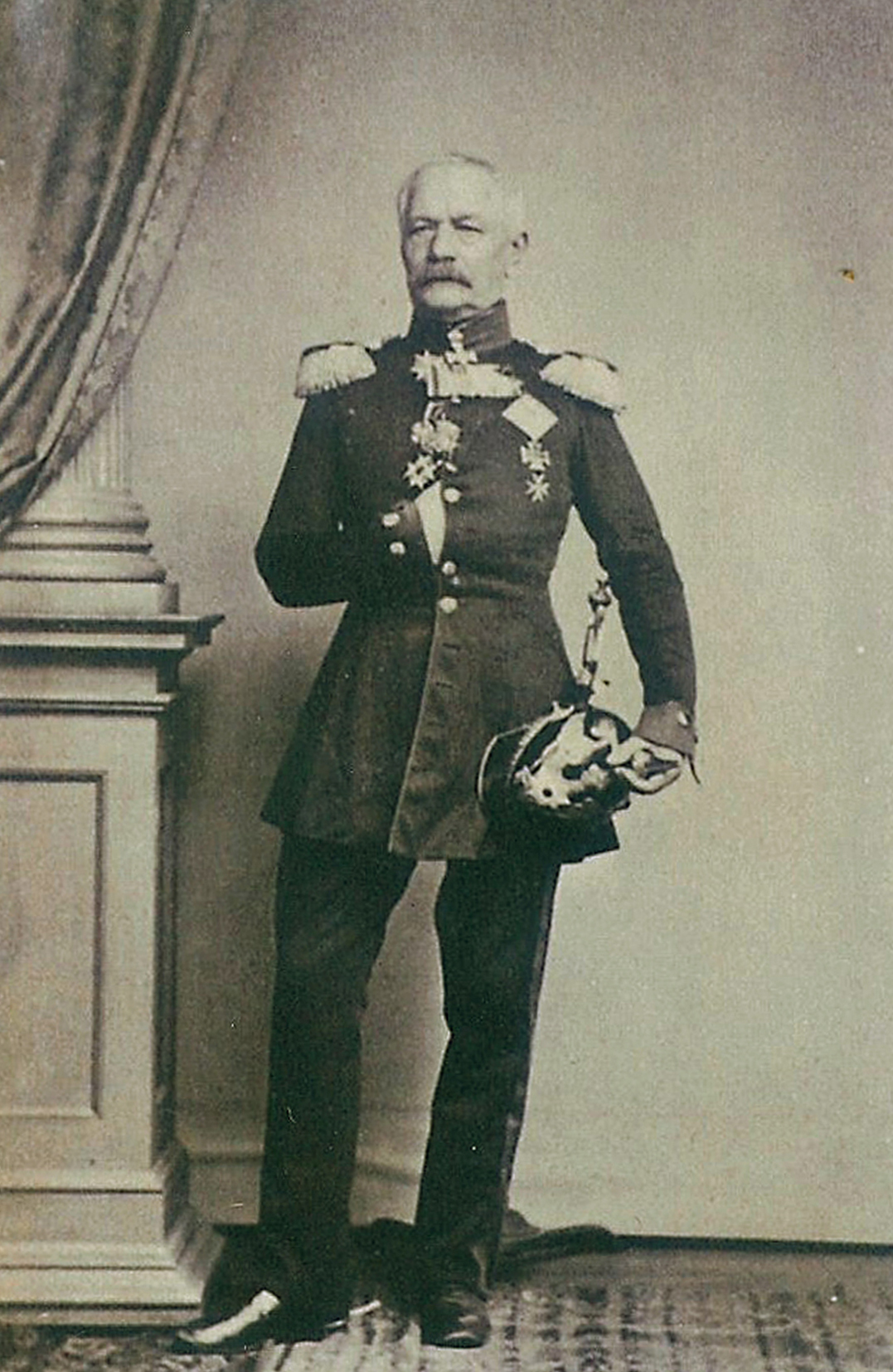 Karl Heinrich August Wilhelm of Doering (born October 22, 1791 in Cosel, 30 July 1866 in Cranz) was a Prussian general lieutenant.